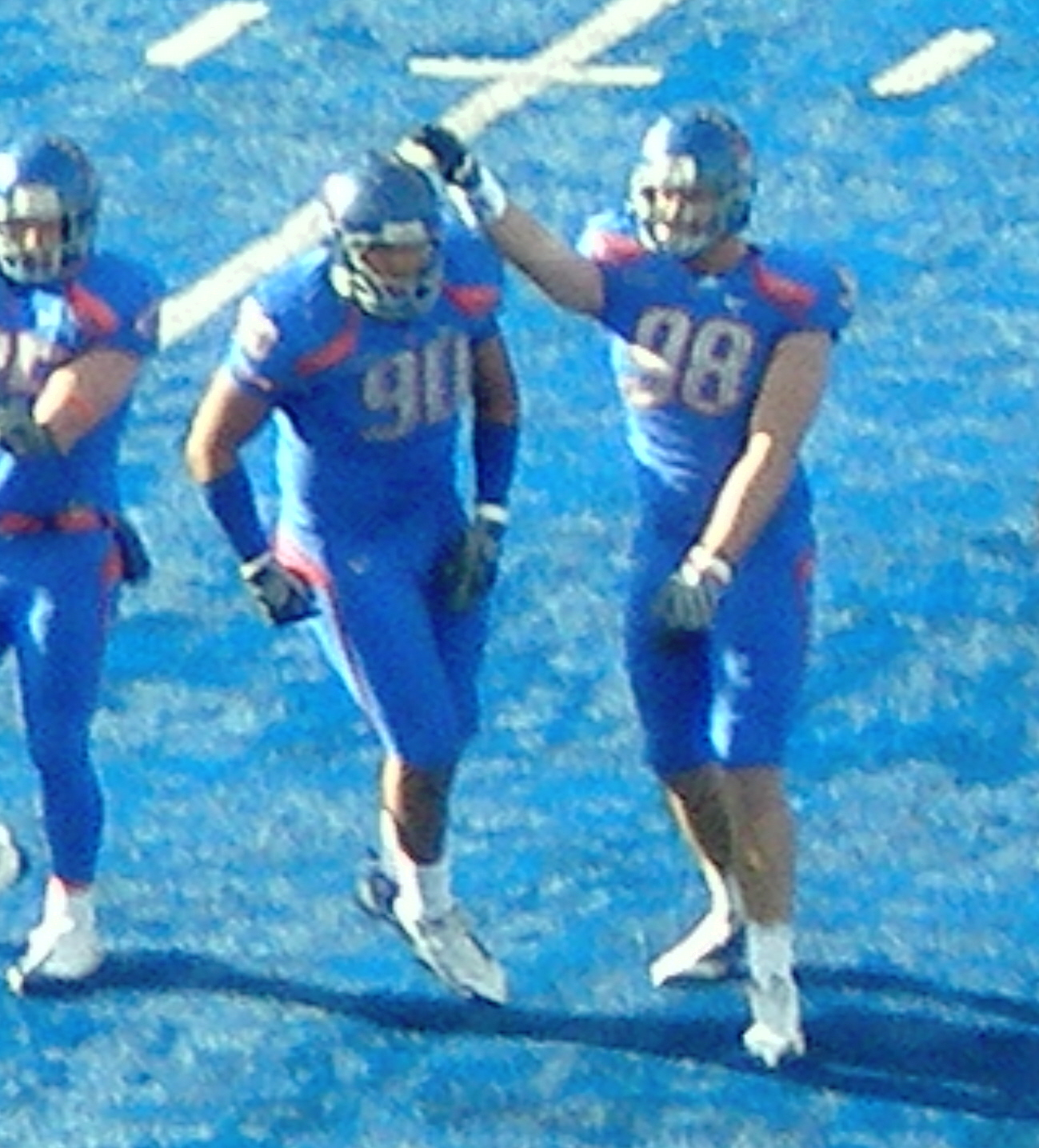 Boise State defensive linemen Billy Wynn (90) and Ryan Winterswyk (98) after they combined for a Sack vs New Mexico State at Bronco Stadium in Boise Idaho on December 5 2009